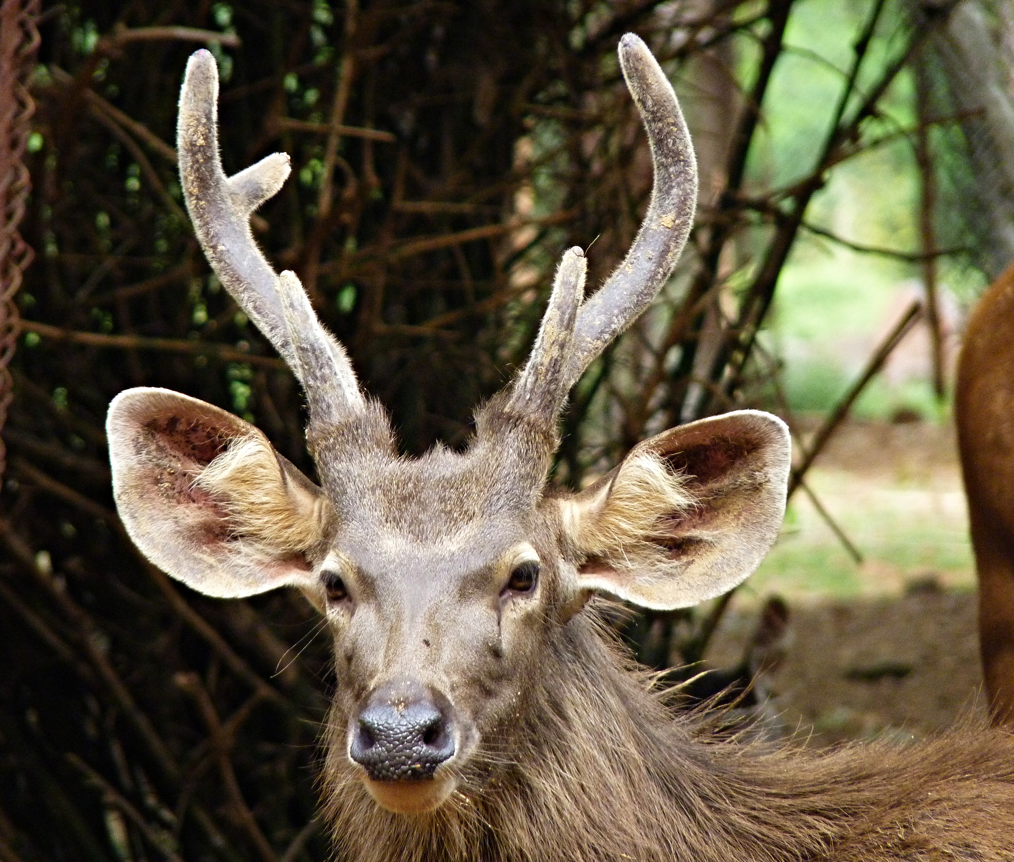 A Portrait of Sambar Deer in the Vandalur Zoo,Chennai